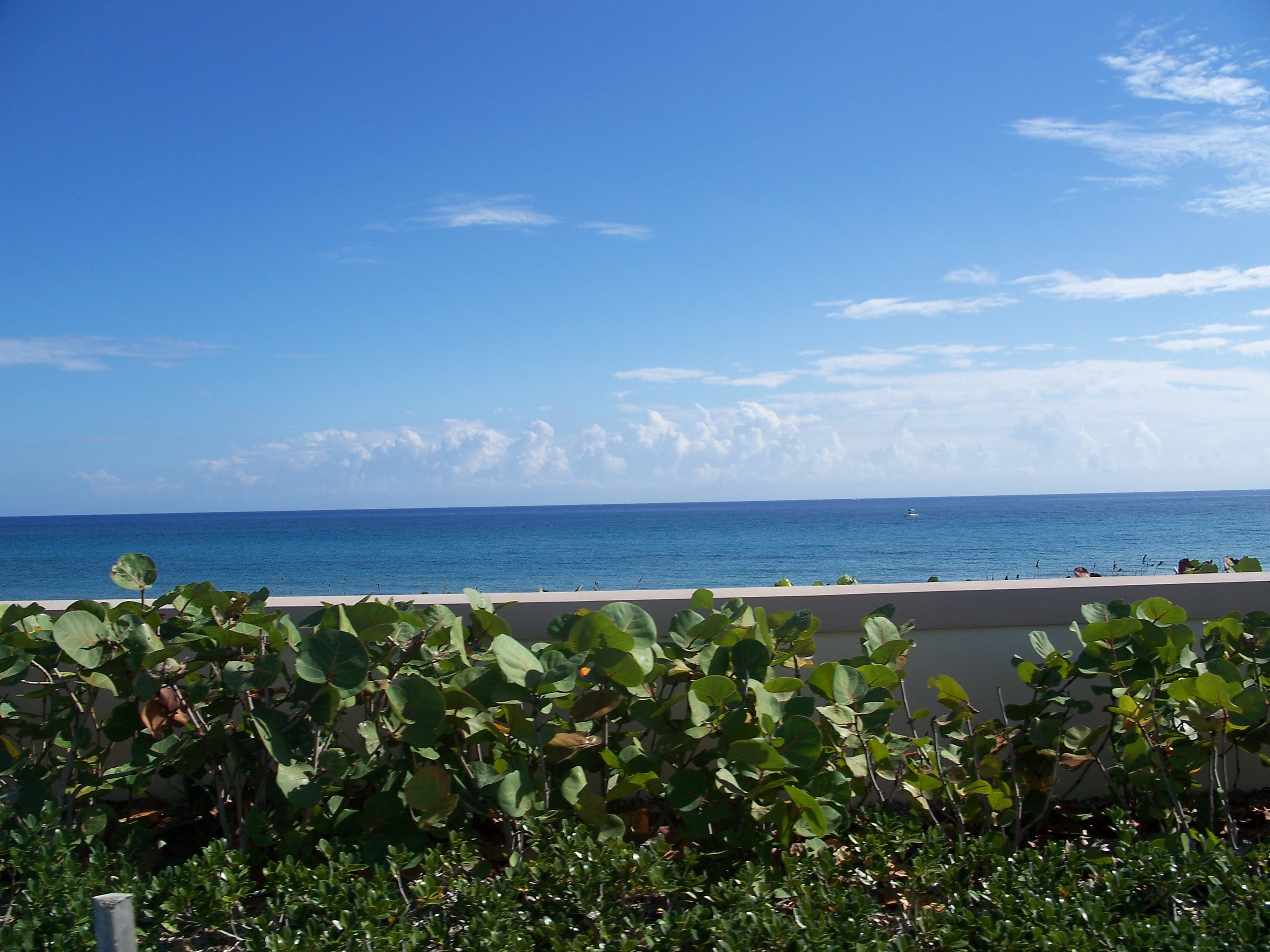 Boynton Beach, Florida: Lofthus (shipwreck): Looking in the direction where the Lofthus sank